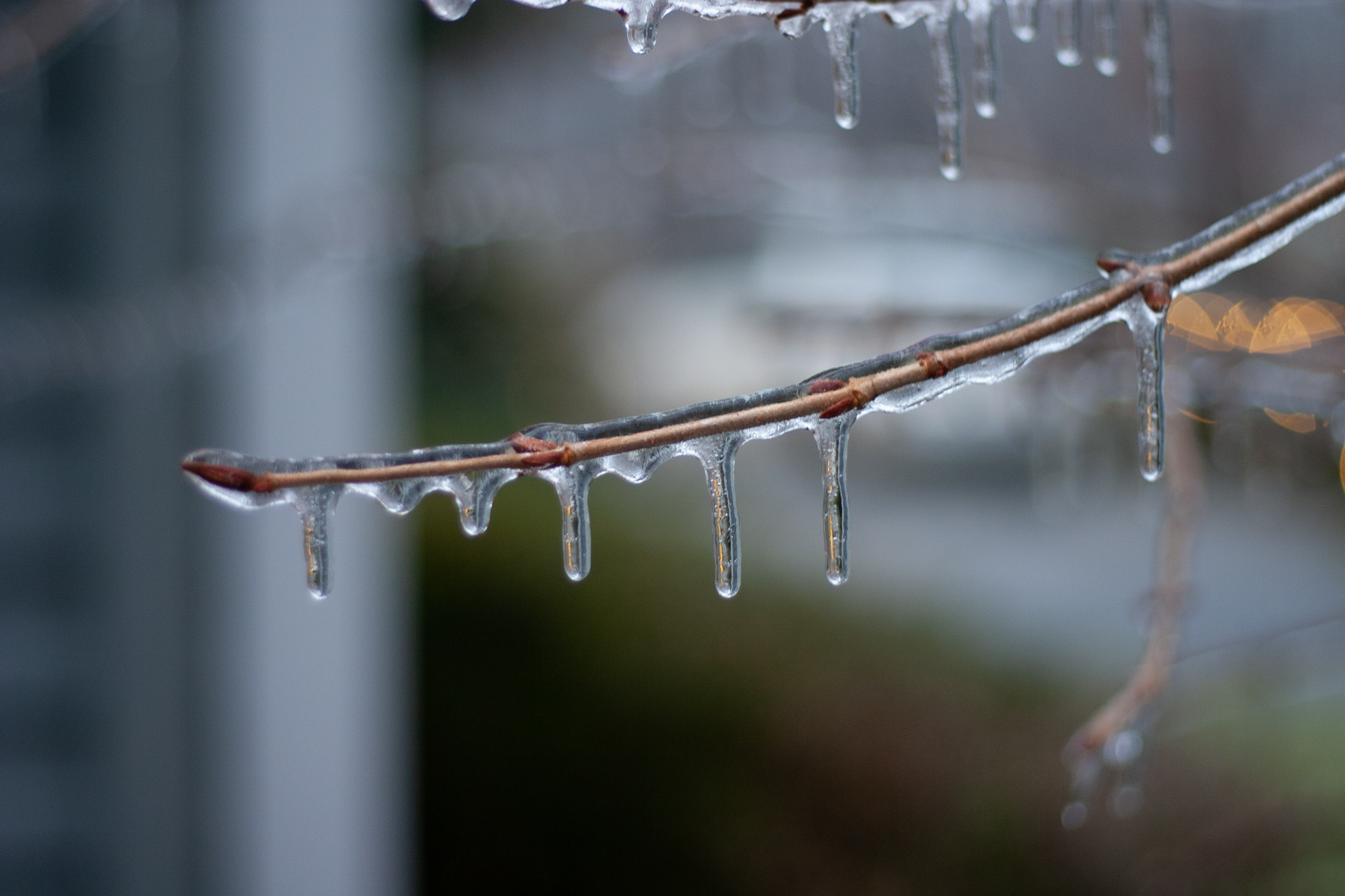 Icicles hanging off of a tree branch during winter in Basking Ridge 2019.